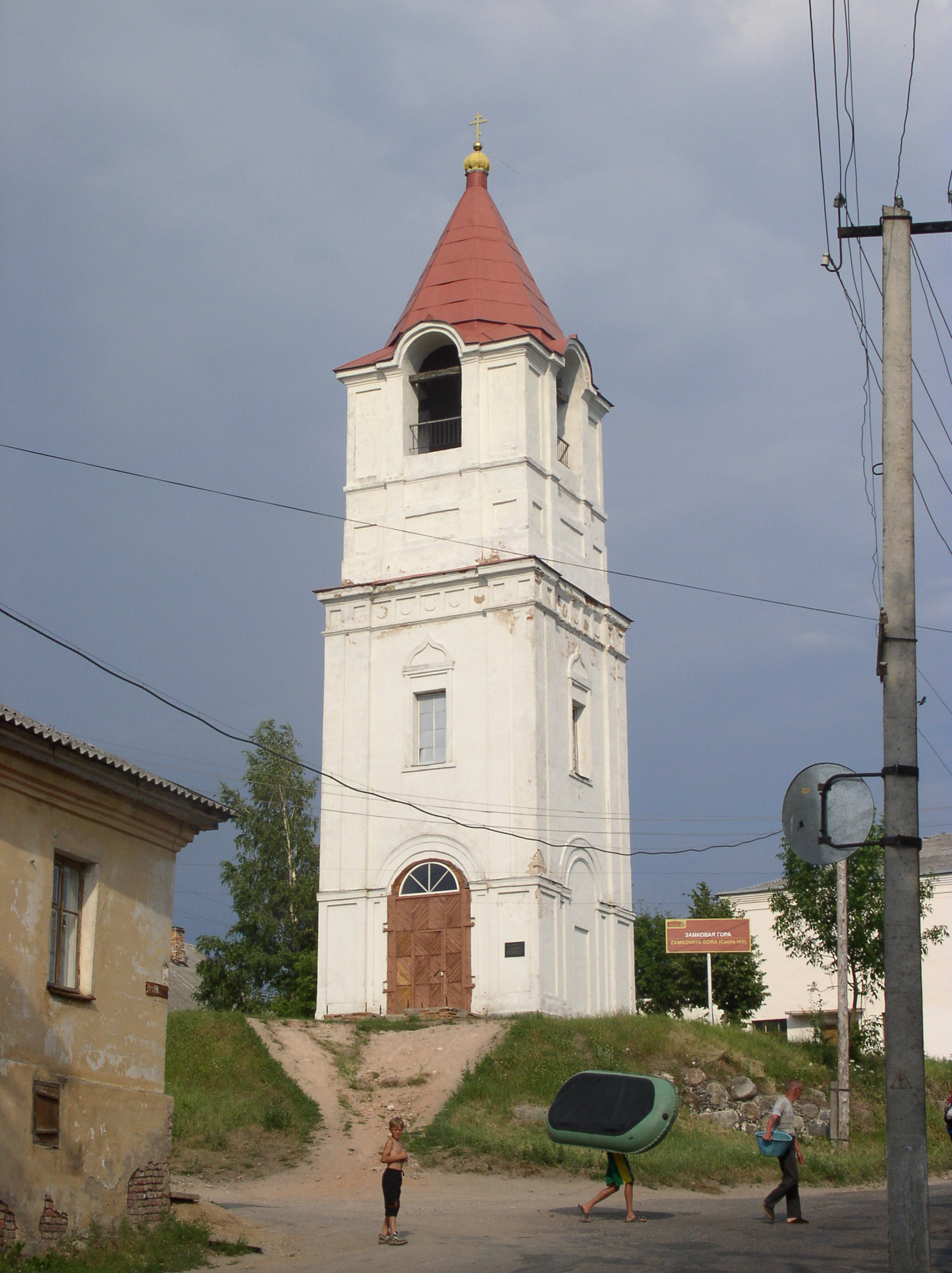 Belfry of Nativity Cathedral. Sebezh, Russia.